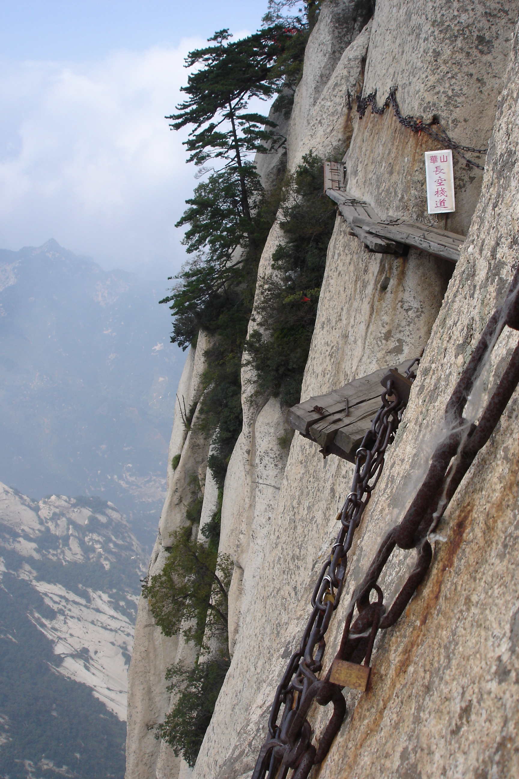 Thousand feet cliff of the Hua Shan (Shaanxi, People's Republic of China).